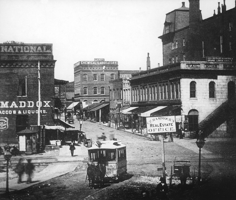 A cart on Peachtree Street, near Five Points in downtown Atlanta, Georgia.